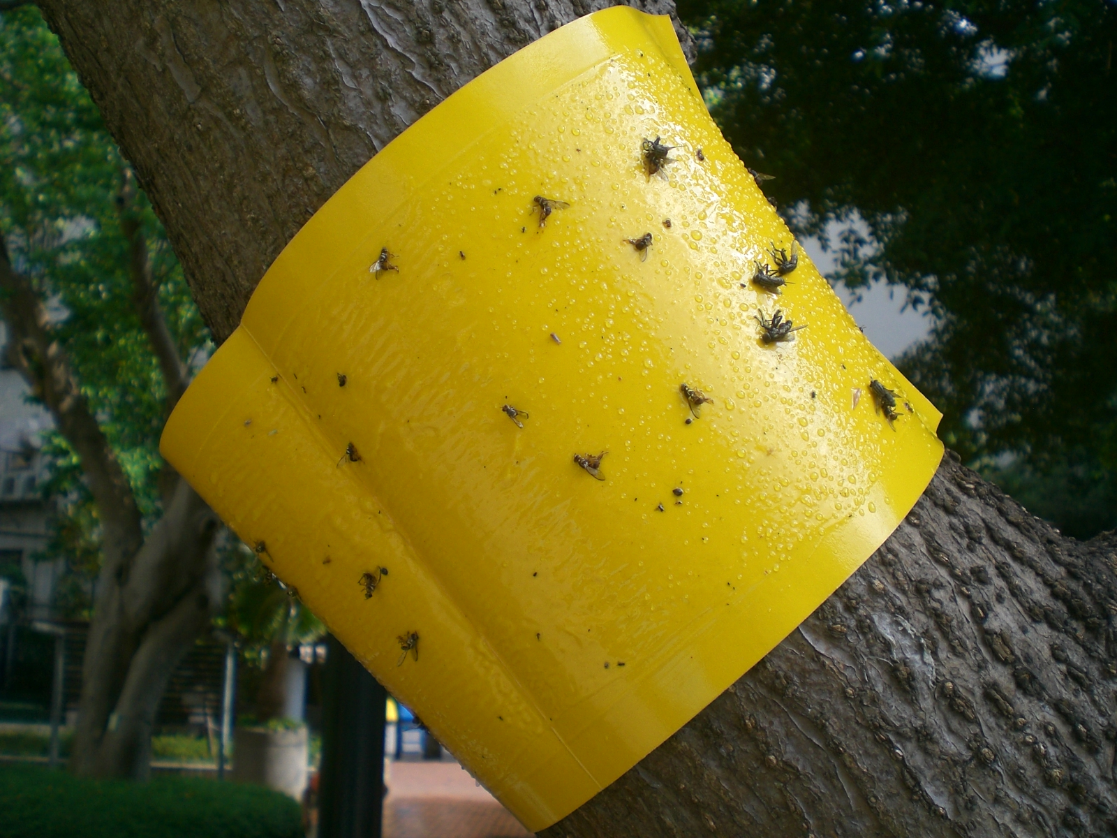 灣仔公園